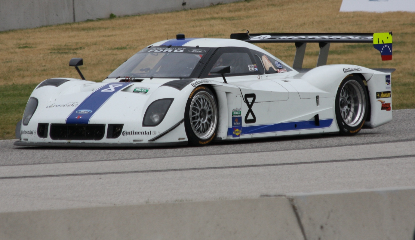 The Chip Ganassi Racing Daytona Prototype driven by Ryan Dalziel and Enzo Potolicchio at a 2012 race at Road America.